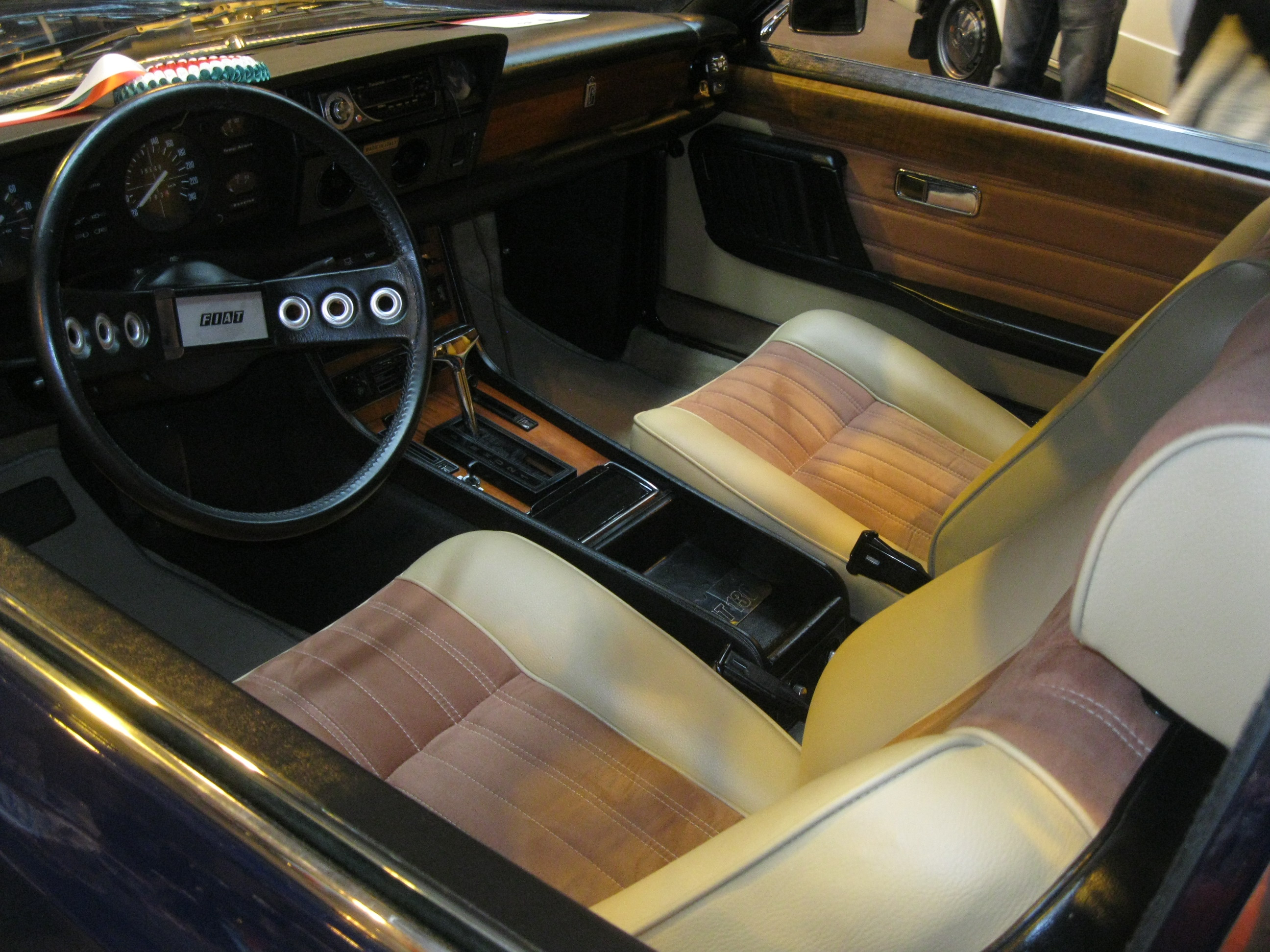 Exhibited at the NEC Birmingham Classic Car Show, 15-17 November 2013